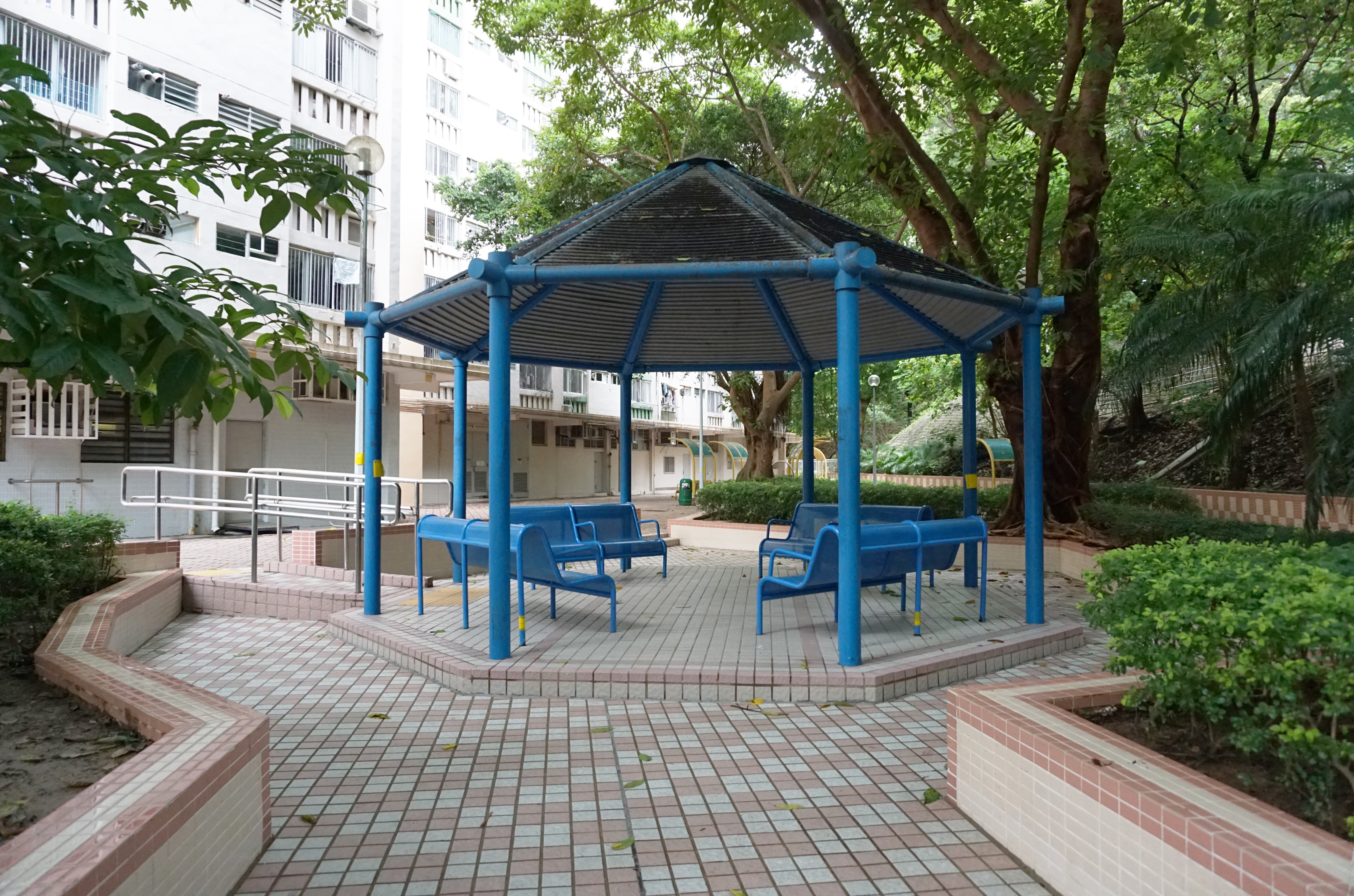 Tai Wo Hau Estate in Tai Wo Hau, Hong Kong.